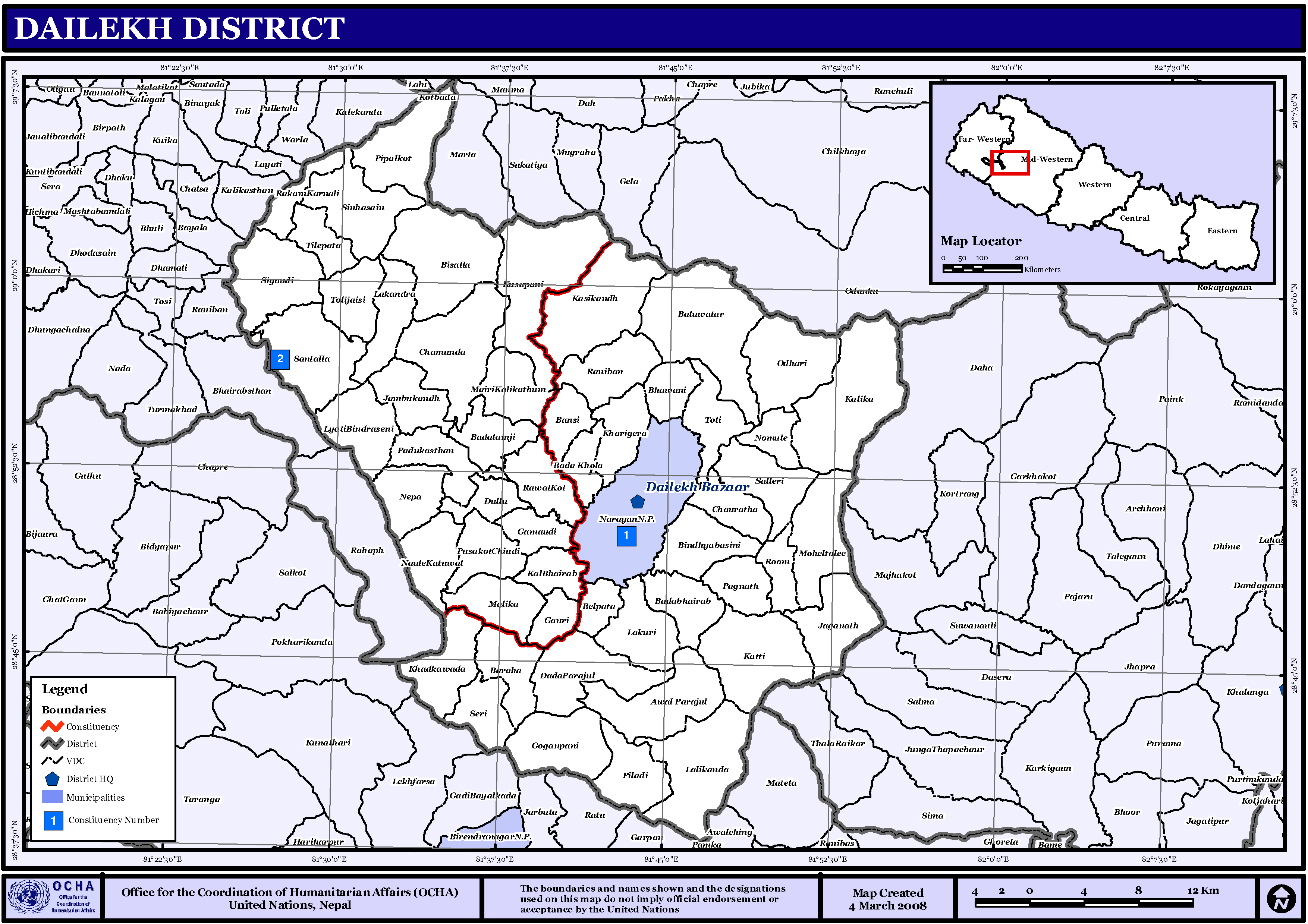 Map displaying Village Development Committees in Dailekh District, Nepal